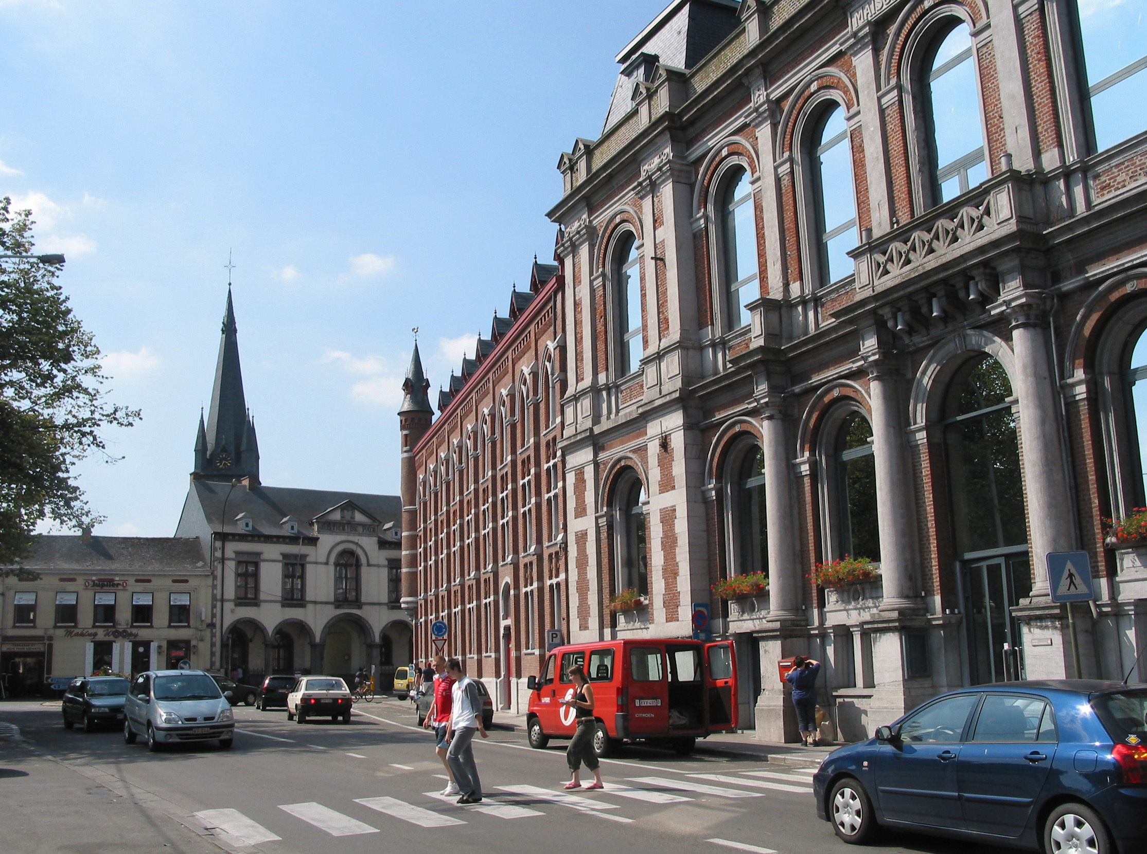 Boussu (Belgium), the communal house, the old orphanage, the First Instance Court and the St. Géry church.